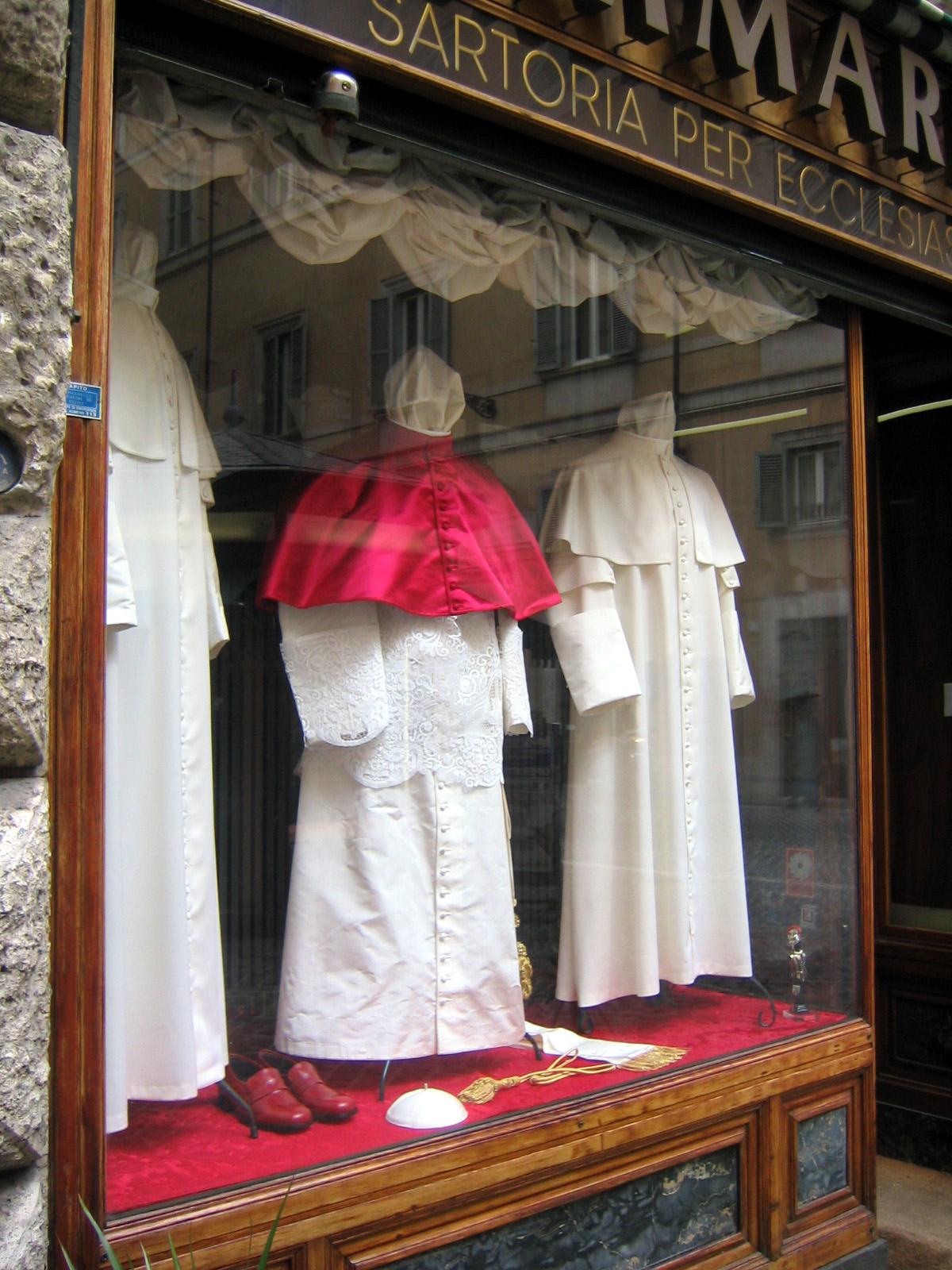 Display window of Gamarelli during the 2005 sede vacante. Middle: Papal choir dress consisting of red summer mozzetta worn over a white lace rochet and a white cassock (with 33 white buttoms). Right: Ordinary dress of the pope consisting of a white simar (= cassock with shoulder cape). Bottom from left to right: Red papal shoes, white zucchetto, golden cord with tassel used with the pectoral cross (just worn with choir dress), fringed fascia.